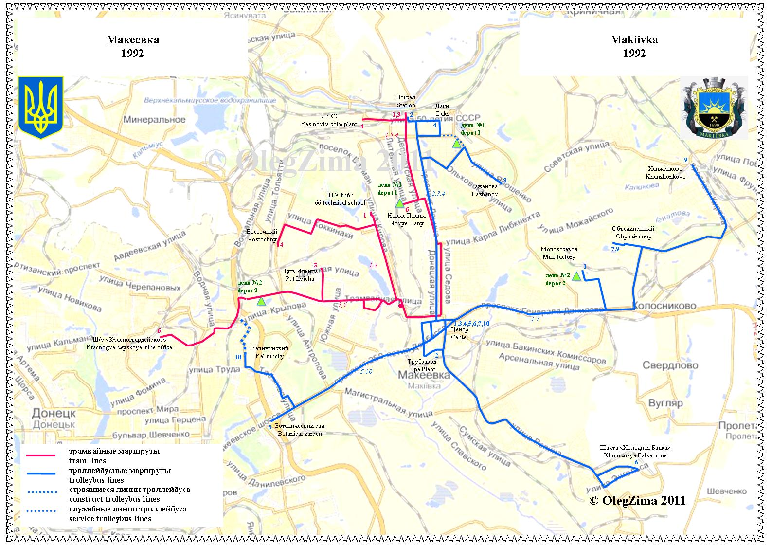 map of transport of Makeevka (Makiivka) city at 1992